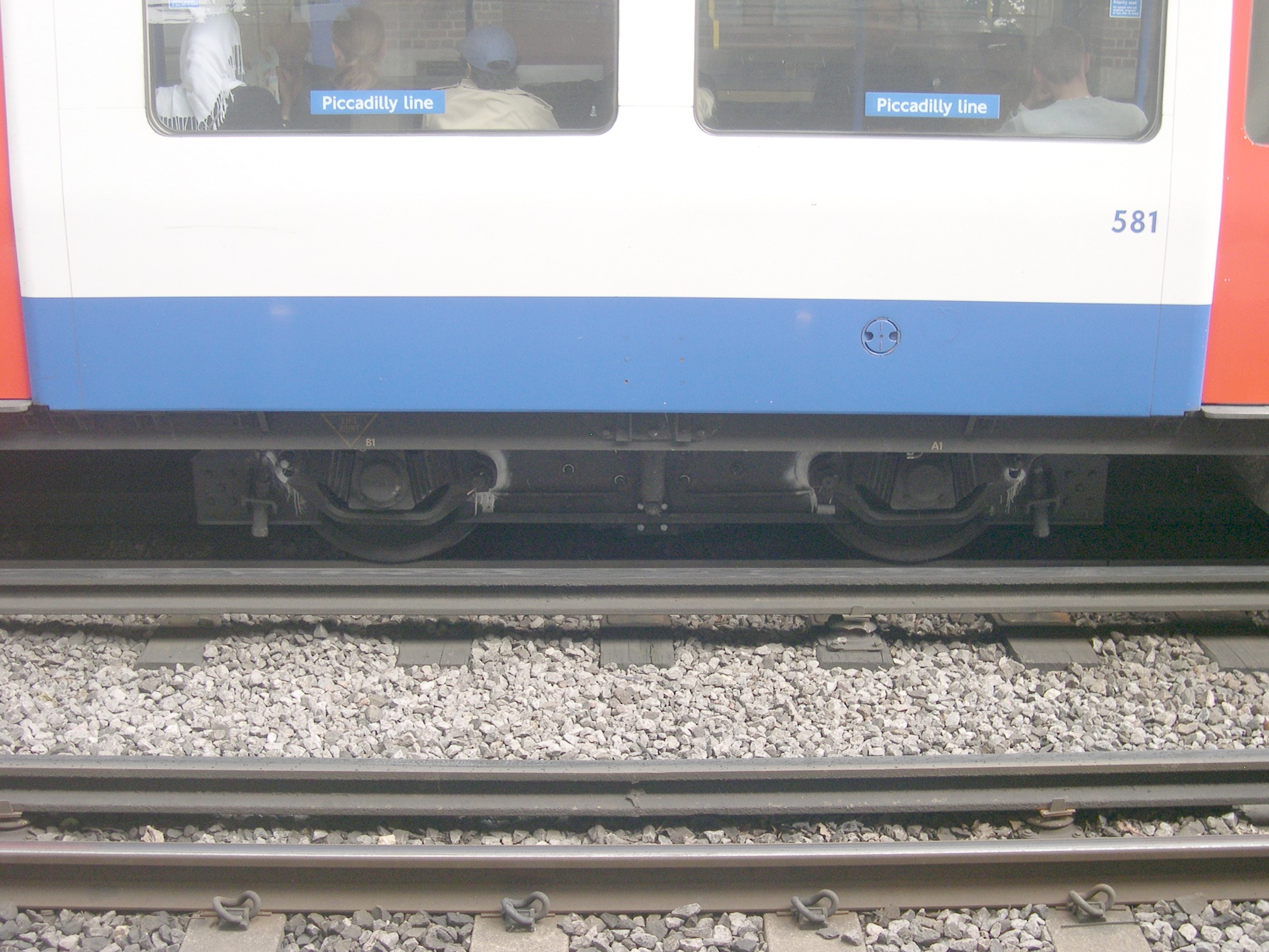 A bogie truck of a 1973 stock